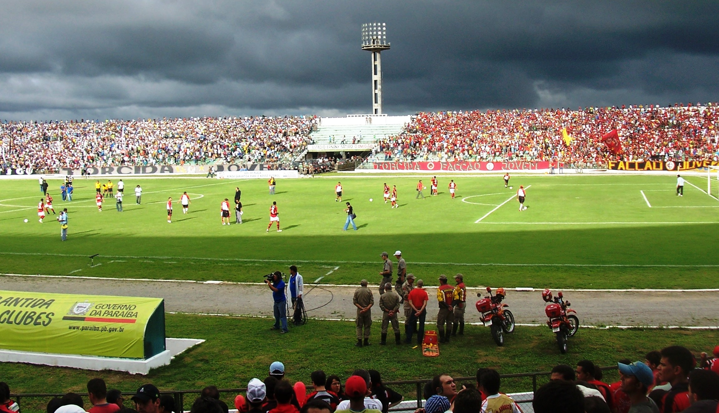 Classico dos Maiorais